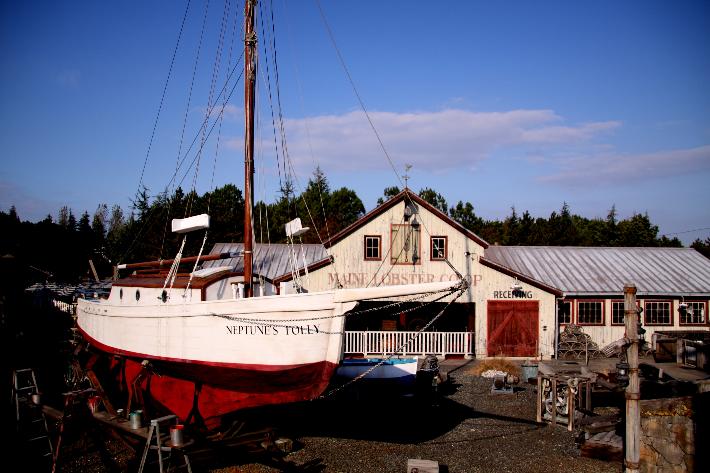 Amity village